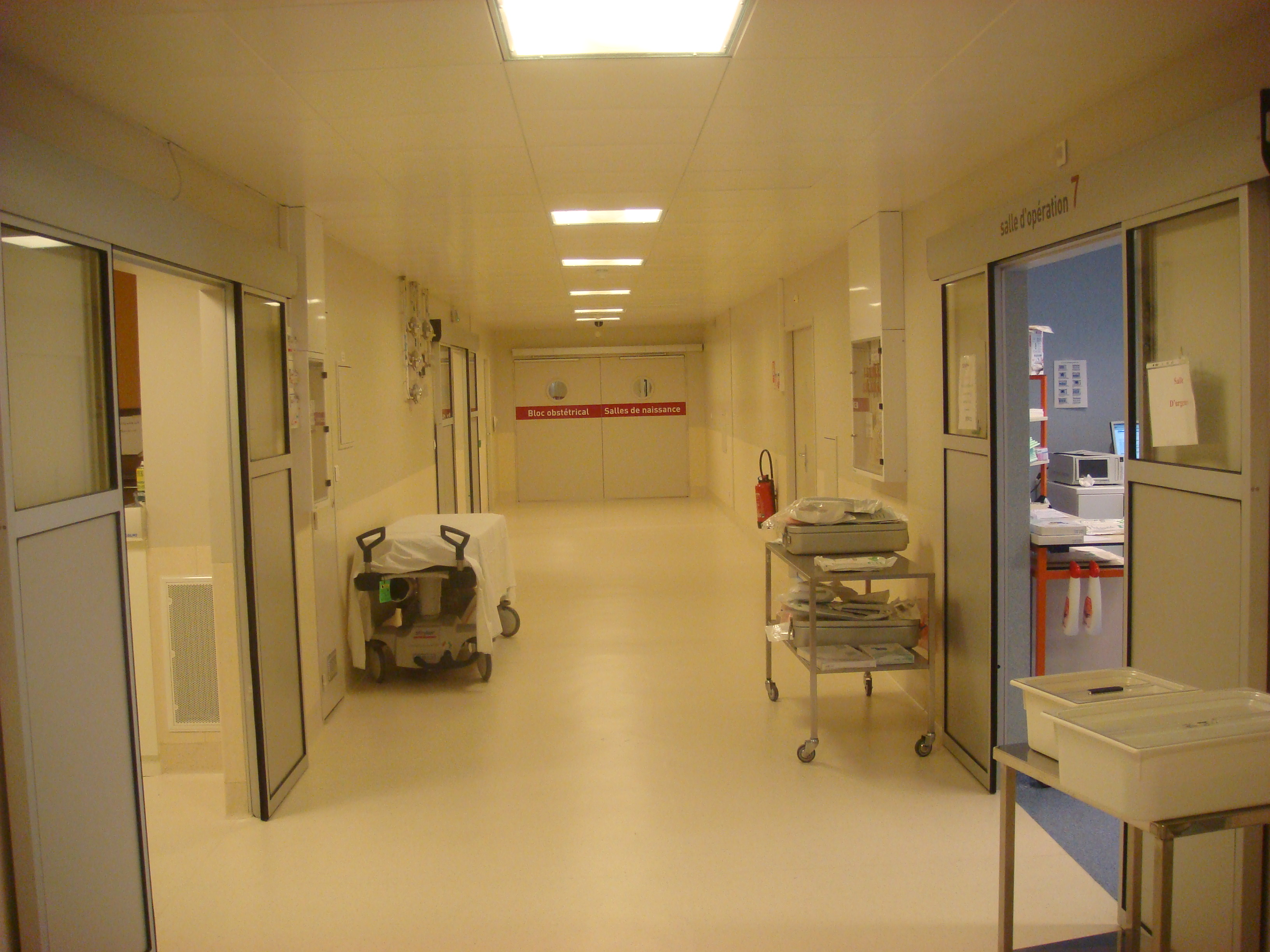 Operating Suite Lyon, France